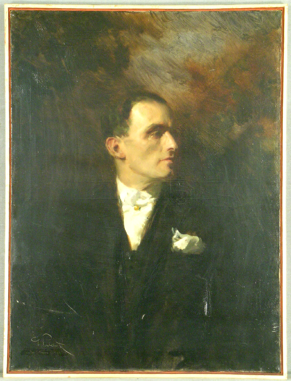 Portrait of Mario Palanti, 1924